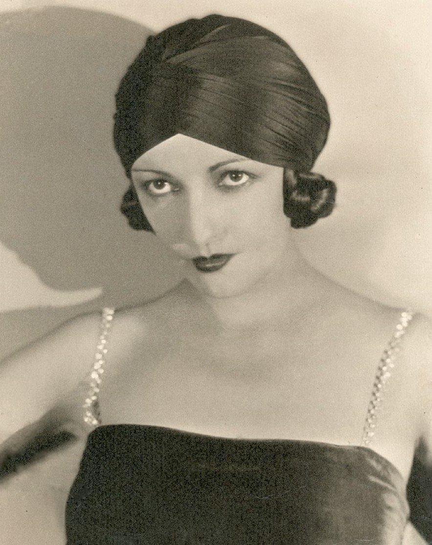 Natacha Rambova headshot, 1925